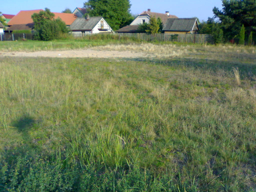 National nature monument SEmínský přesyp in Semín, Pardubice District, Pardubice Region, Czech Republic